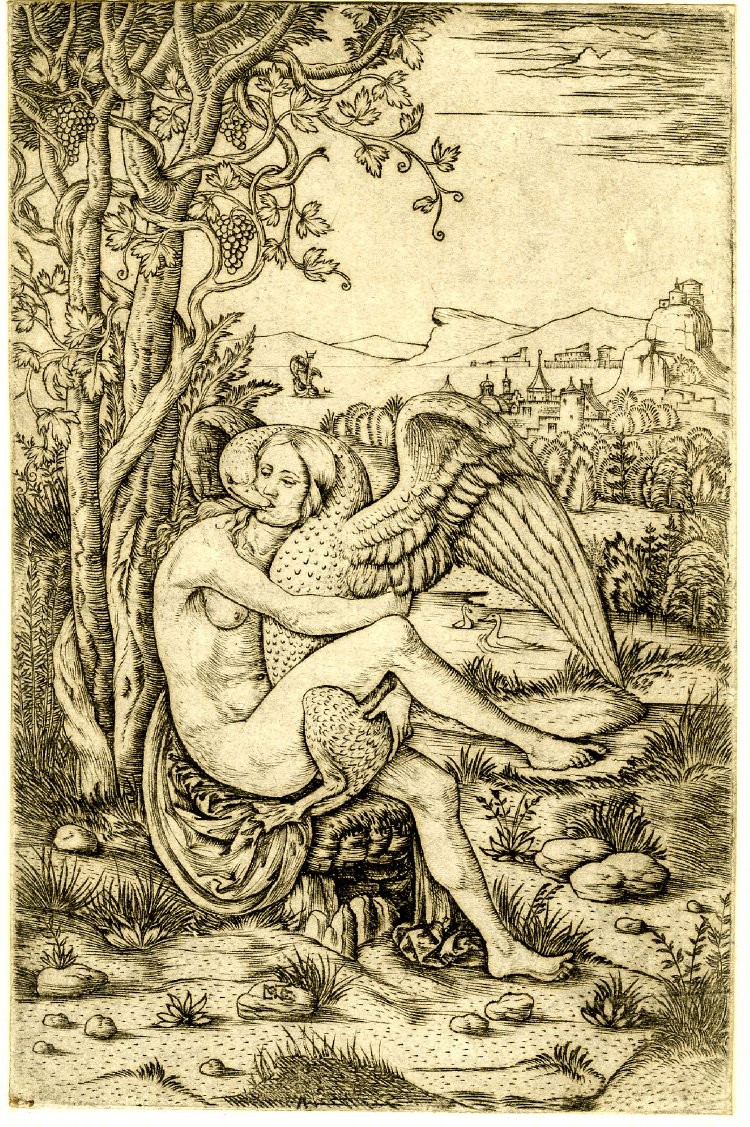 Giovanni Battista Palumba, print in the British Museum